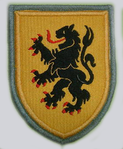 30th Tank Brigade